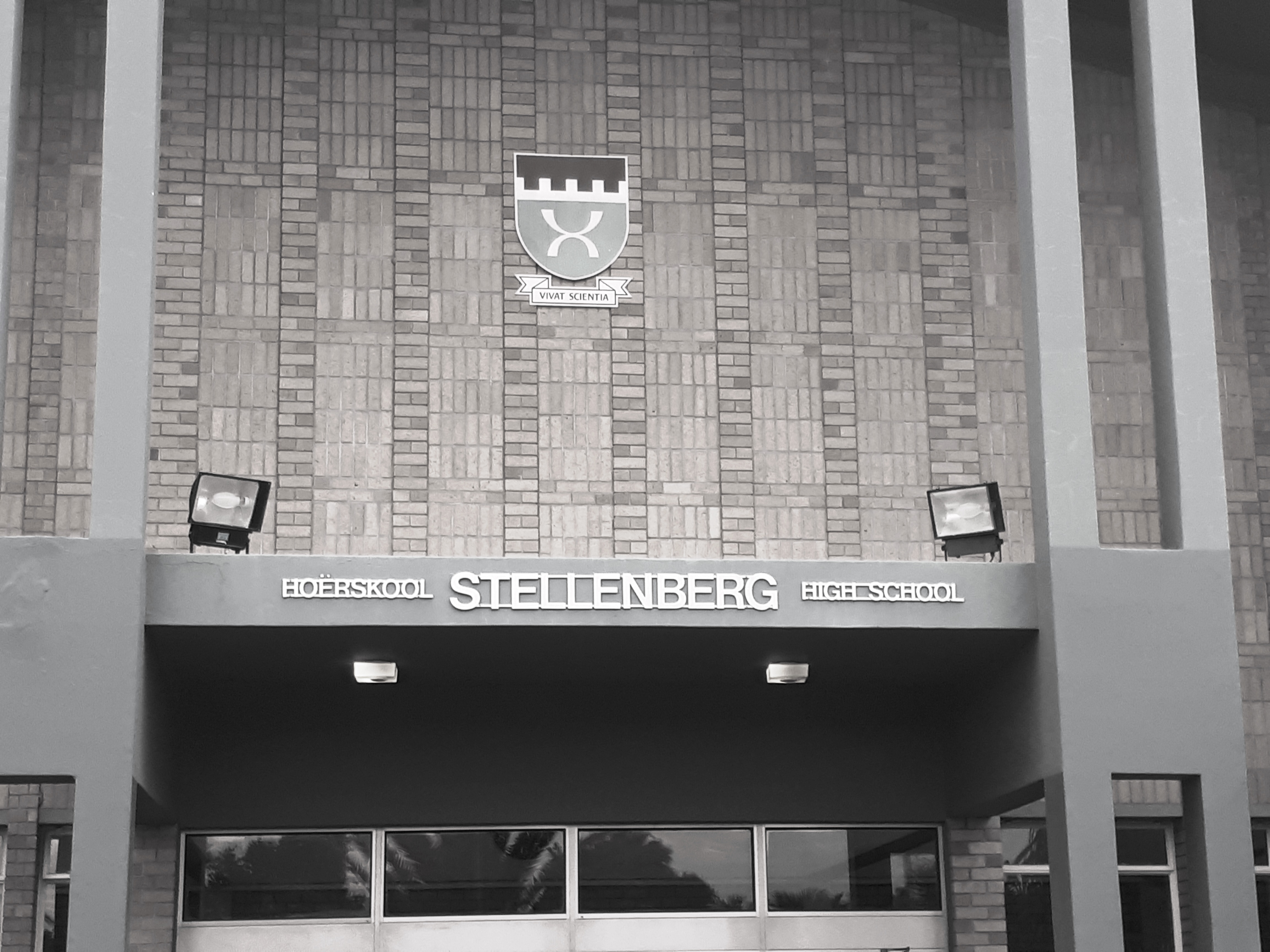 Stellenberg High School 2018